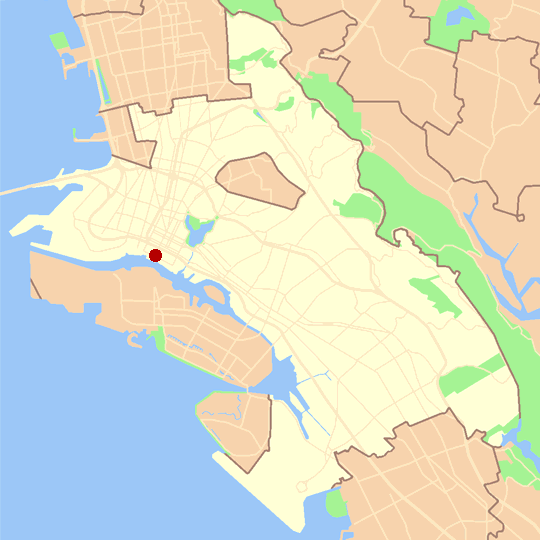 Map showing the location of Jack London Square in the city of Oakland, California. Created by User:Nogood using U.S. Census Bureau data.